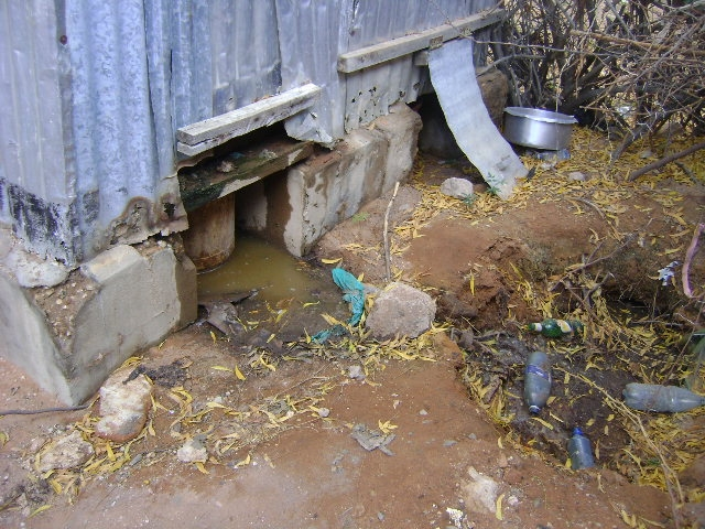 Buckets are overflowing and create an unhygienic and smelly environment. North Eastern Province, Kenya (near Wajir) Photo by EU-Sida-GTZ Ecosan Promotion Project, Kenya